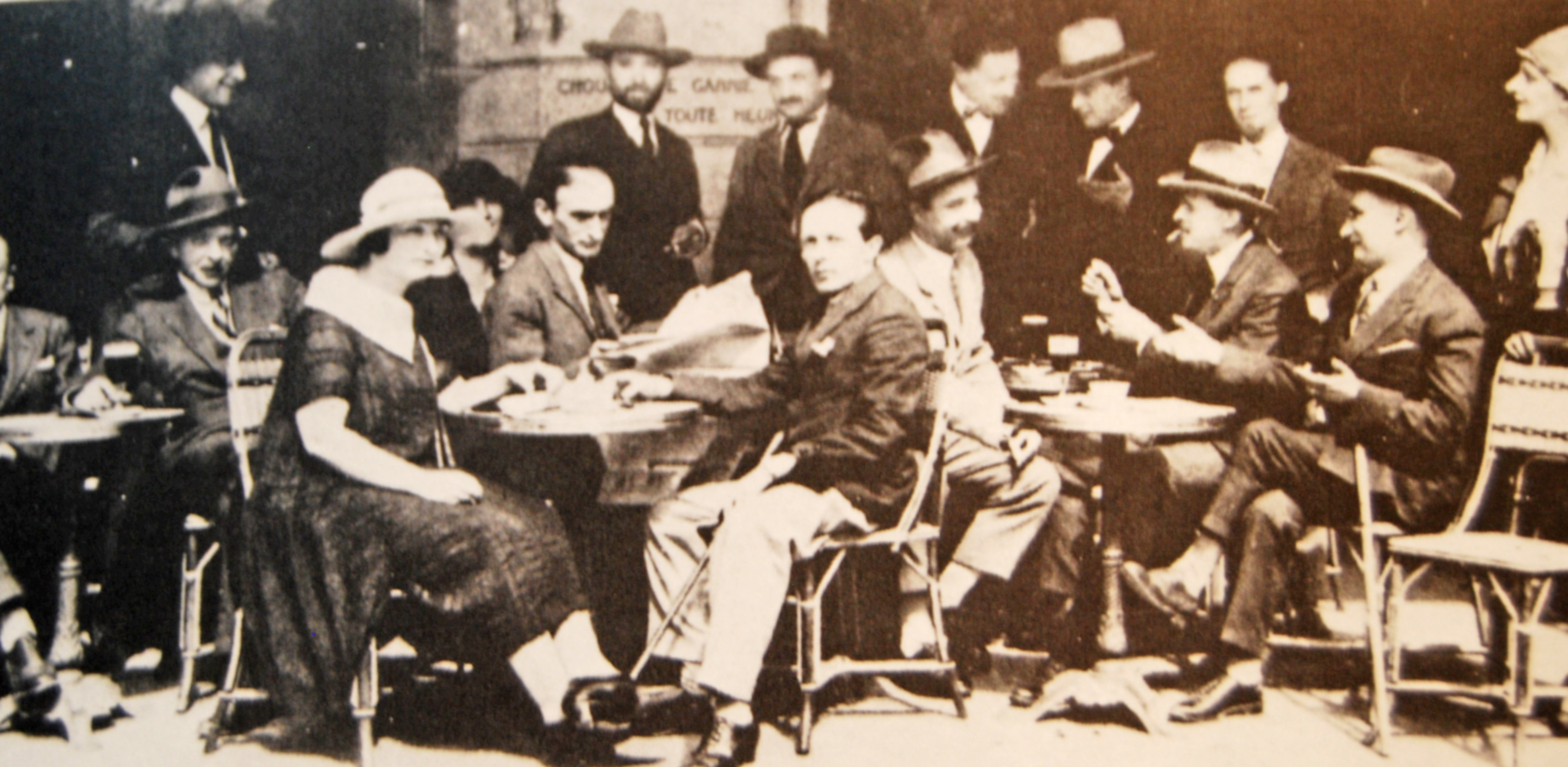 Léopold Zborowski and a group of friends in the cafe rotonda in Paris circa 1924.